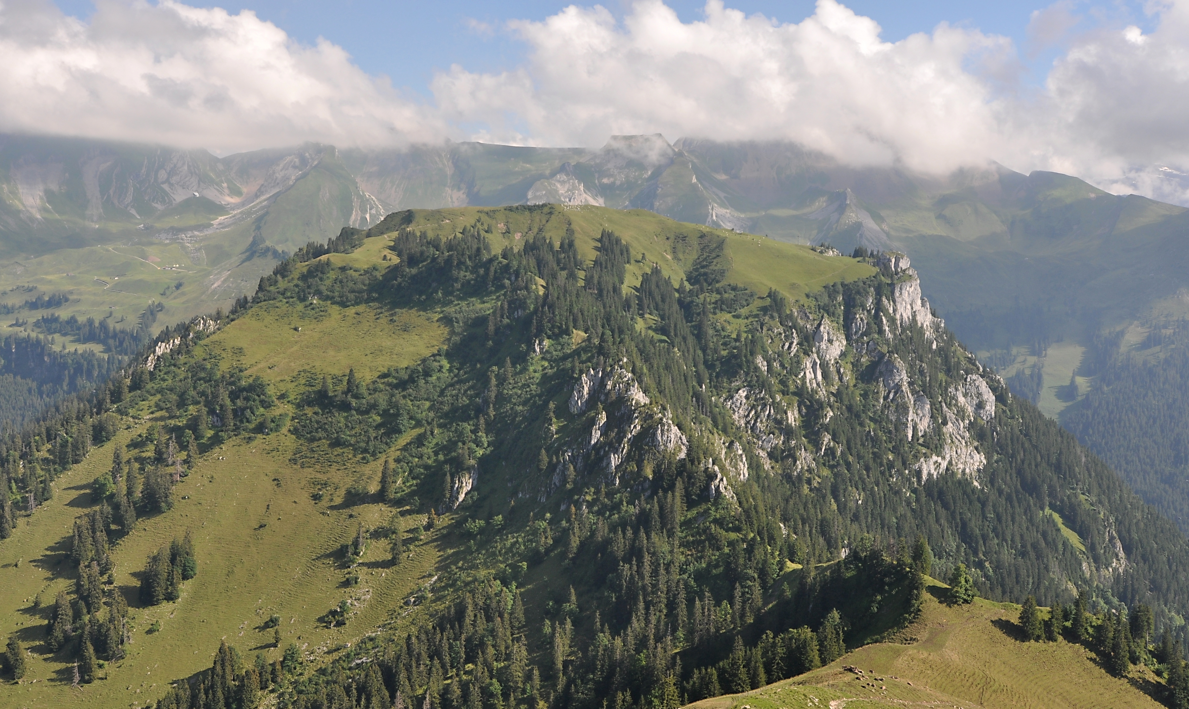 The Musenalp bei Niederrickenbach, seen from the southern flank of the Buochserhorn